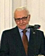 Dmitry Medvedev with Mikhail Nenashev.jpg